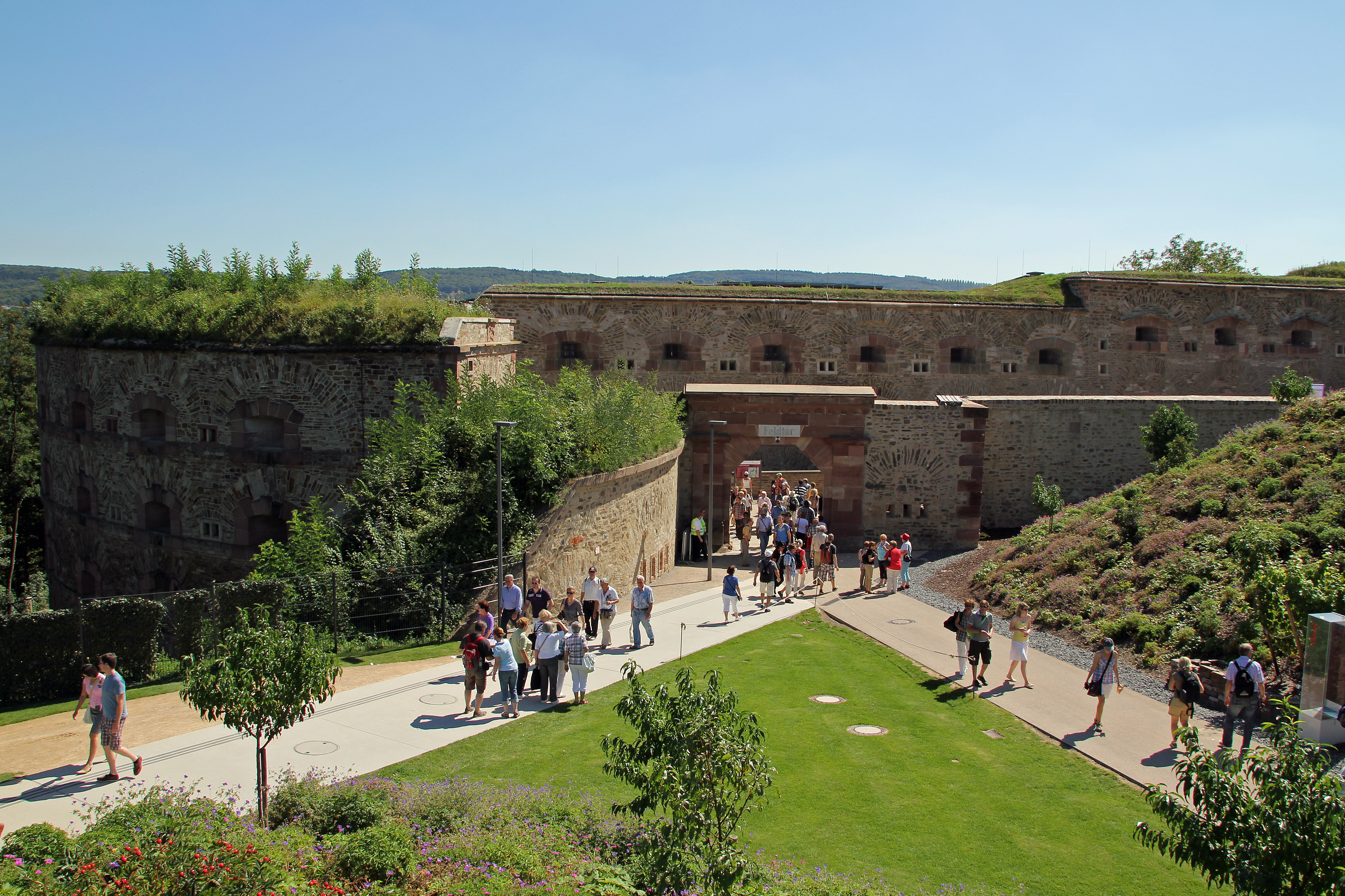 Federal Horticultural Show 2011 in Koblenz - Ehrenbreitstein Fortress